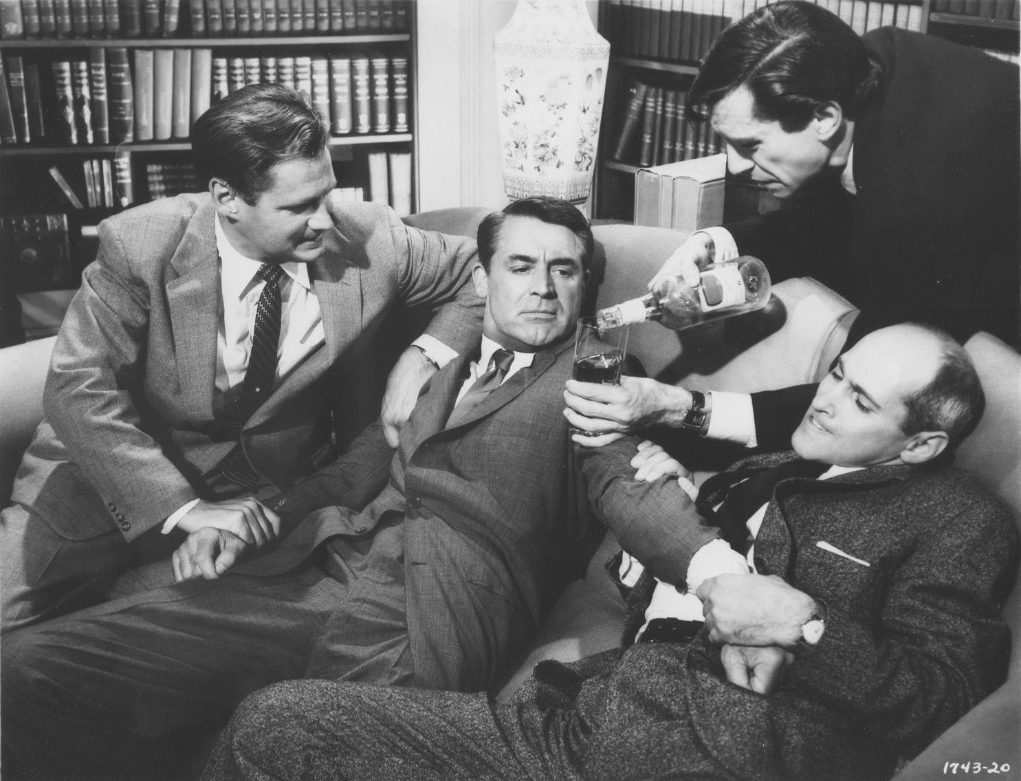 Photo of Cary Grant from the film North by Northwest (1959). See also film still. No copyright notice.